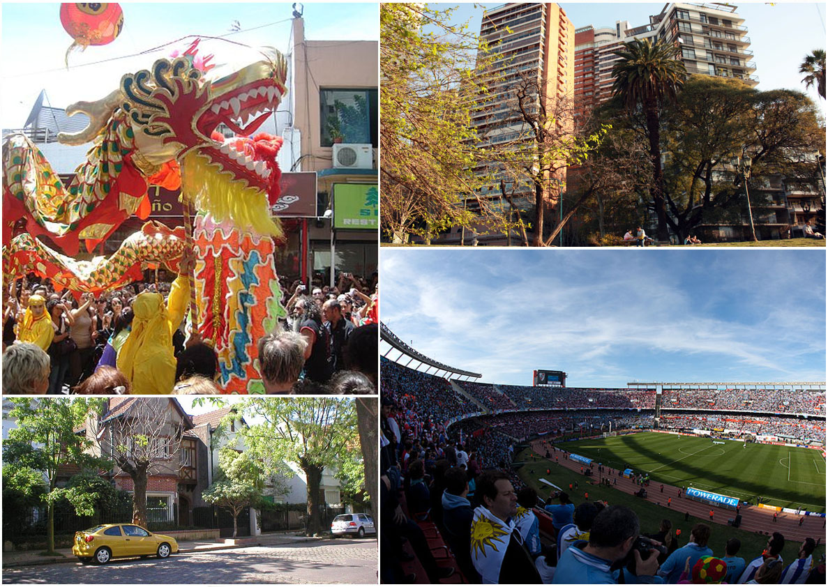 Photo montage of the Buenos Aires district of Belgrano